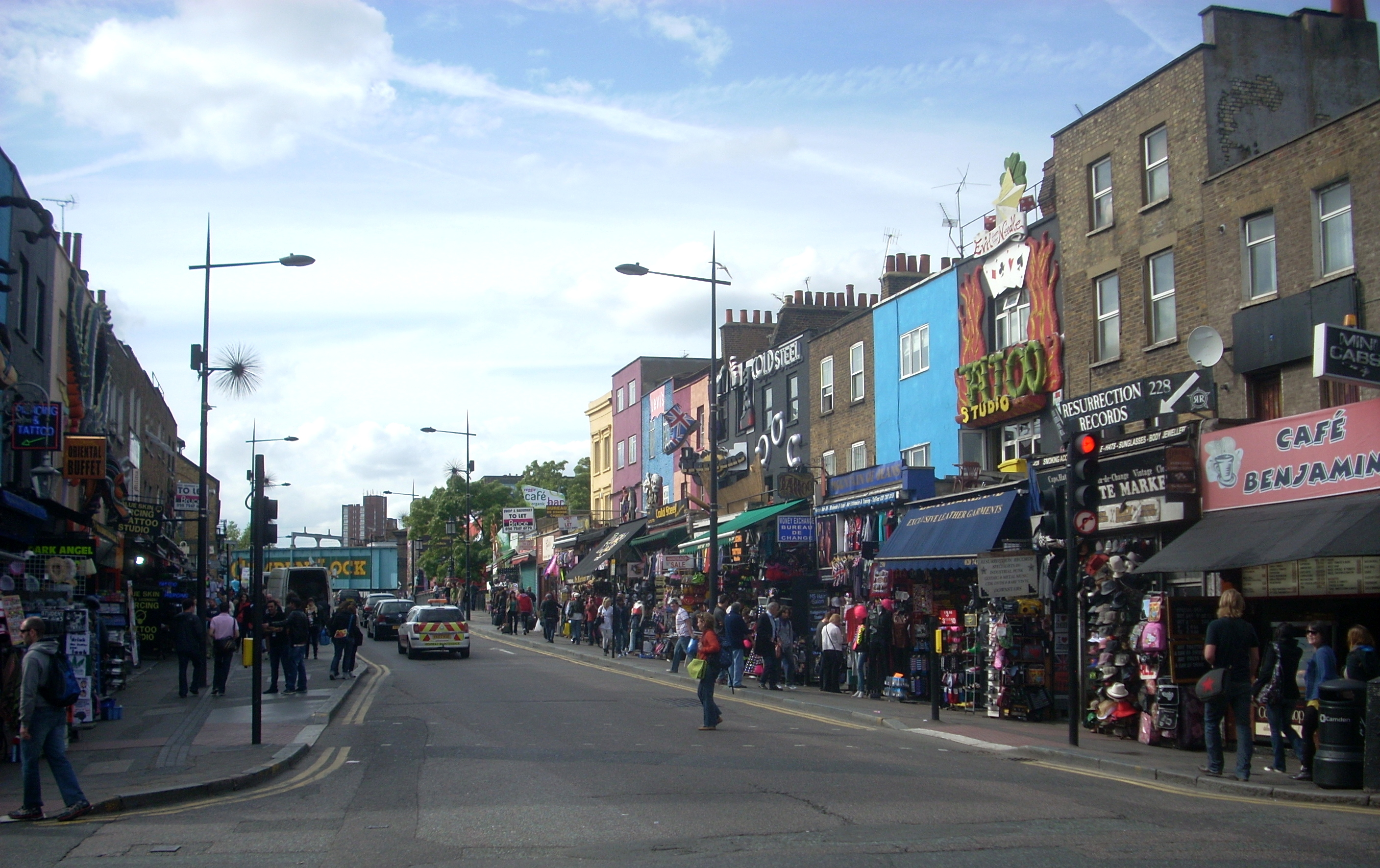 Camden High Street viewed from the junct. w/ hawley cres (northwards)